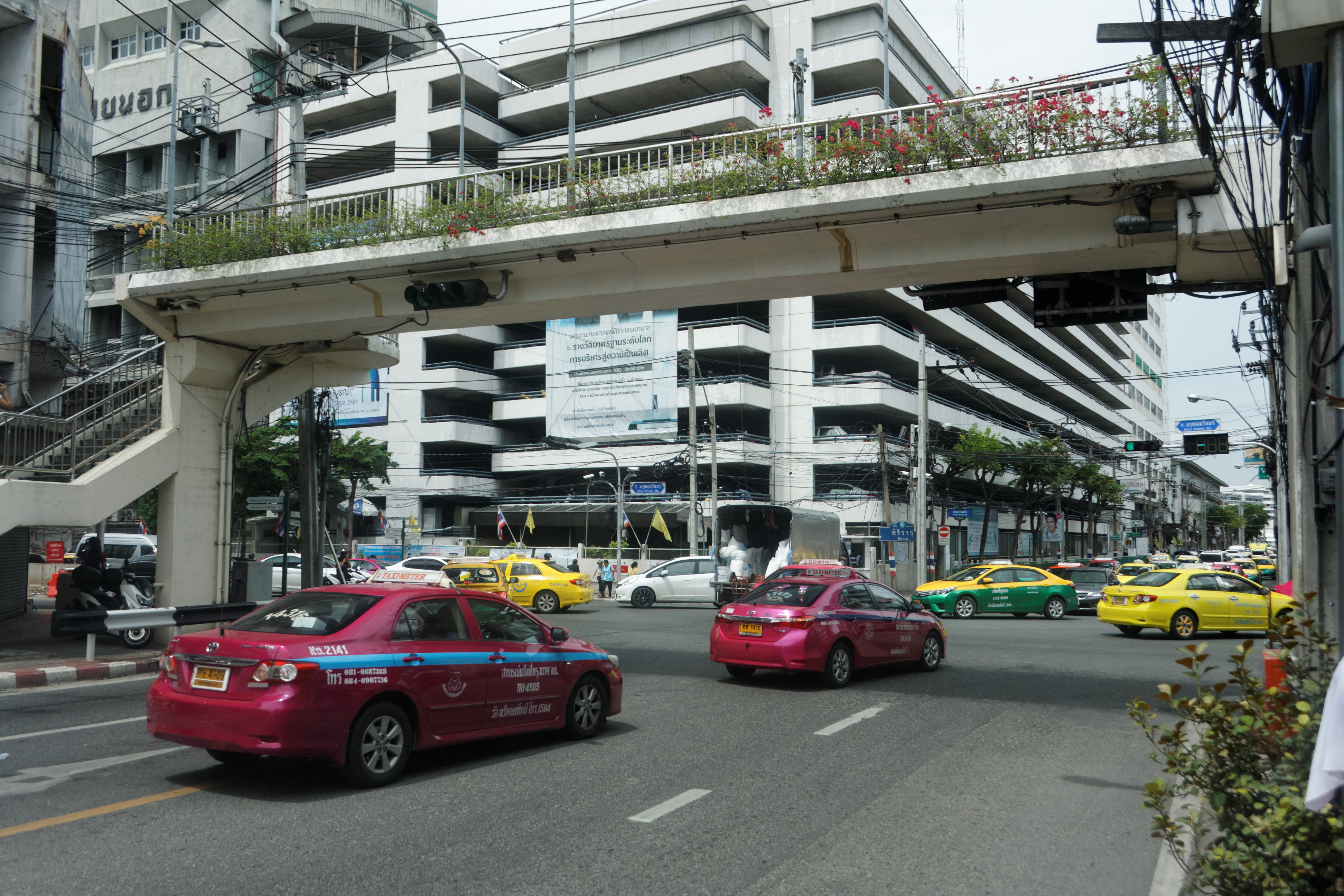 Wang Lang road at Siriraj intersection